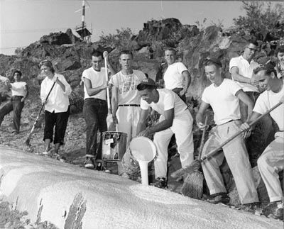 Circa 1950, students Whitewash (paint) the "A" on the mountain white in an annual tradition.